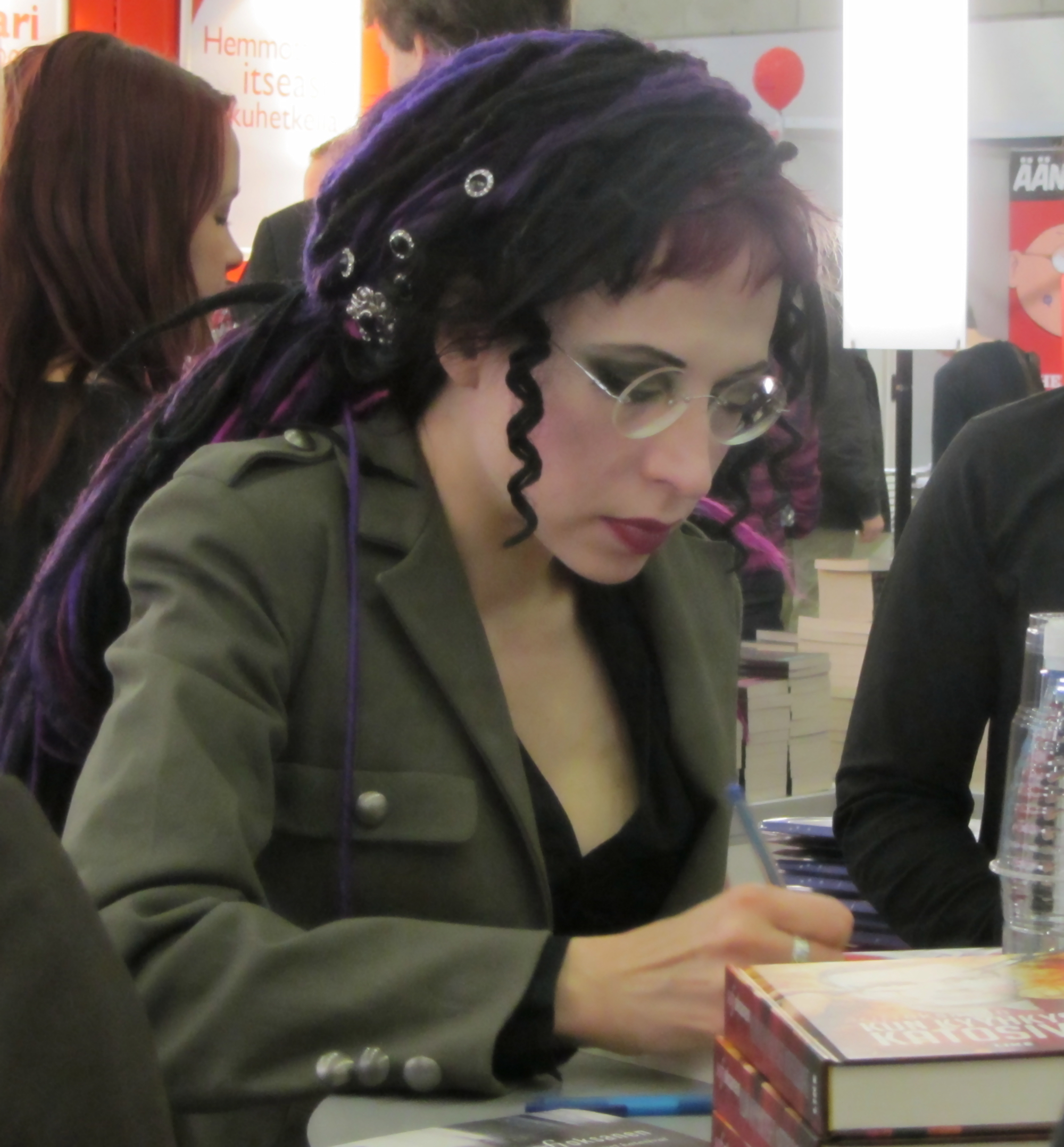 Finnish writer Sofi Oksanen signing her books at the Helsinki Book Fair 2012